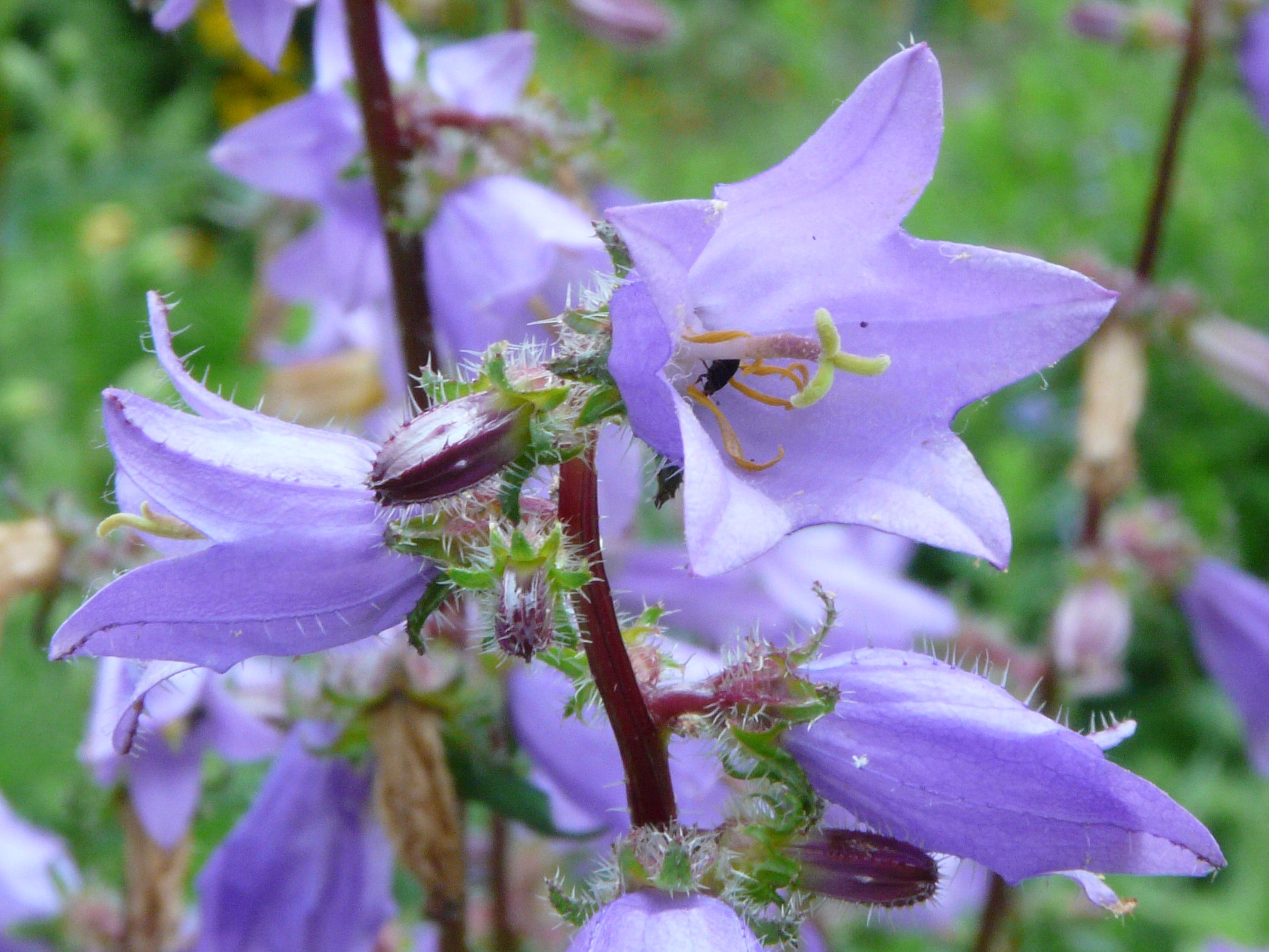 Campanula trachelium (Botanical Gardens Utrecht)